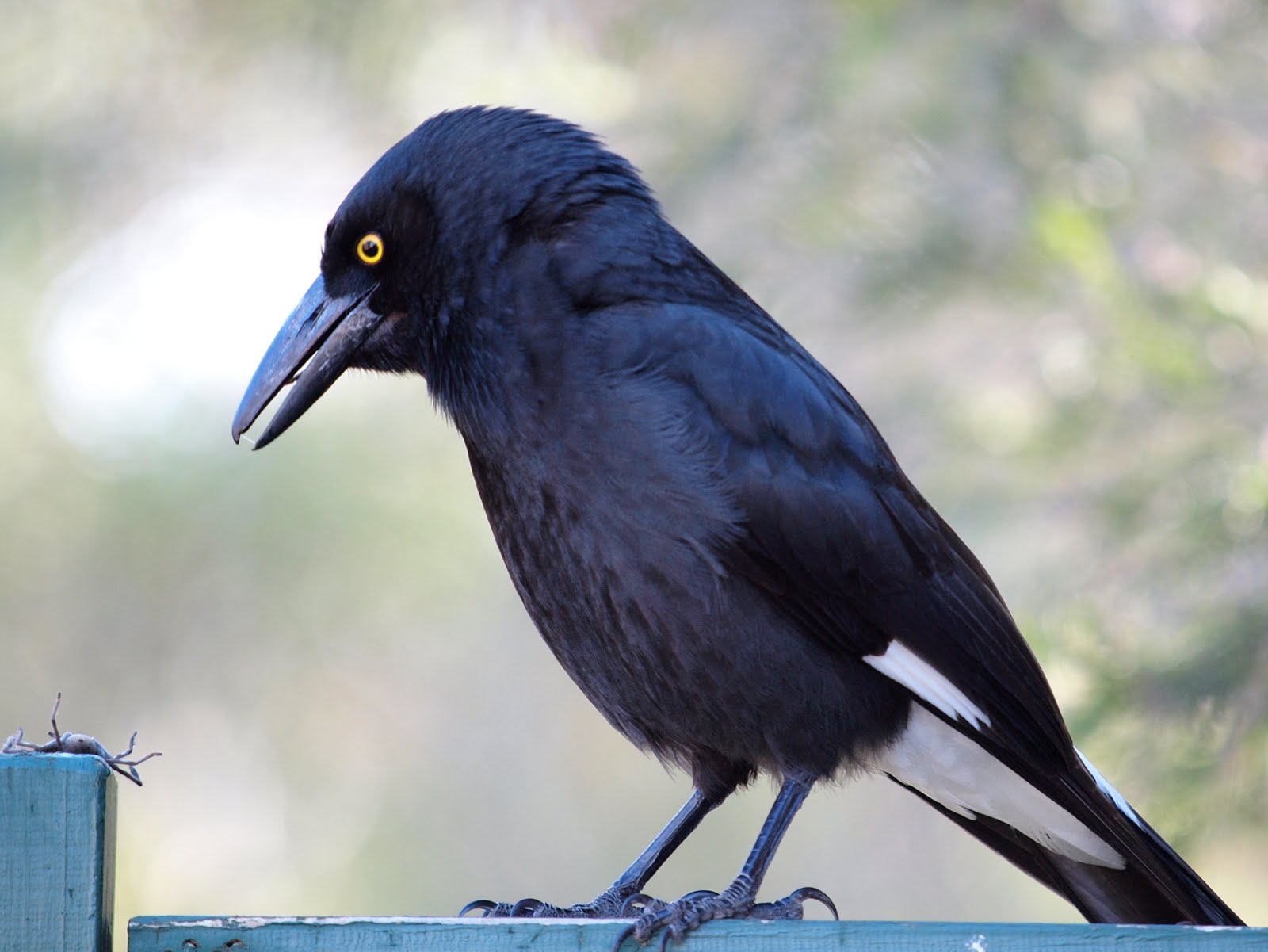 A Pied Currawong in Canberra, Australia.